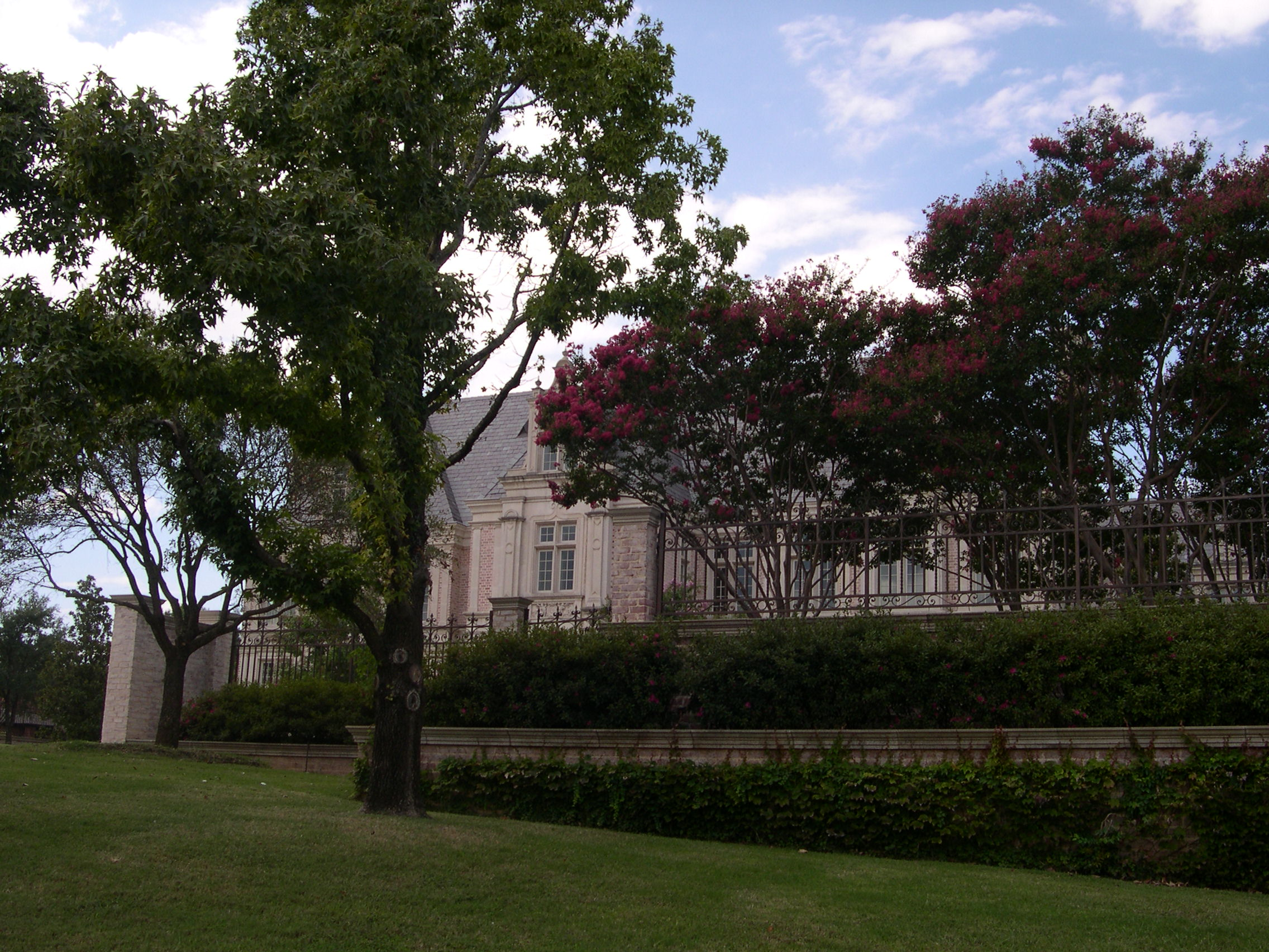 House at Preston Hollow, Dallas, Texas 2